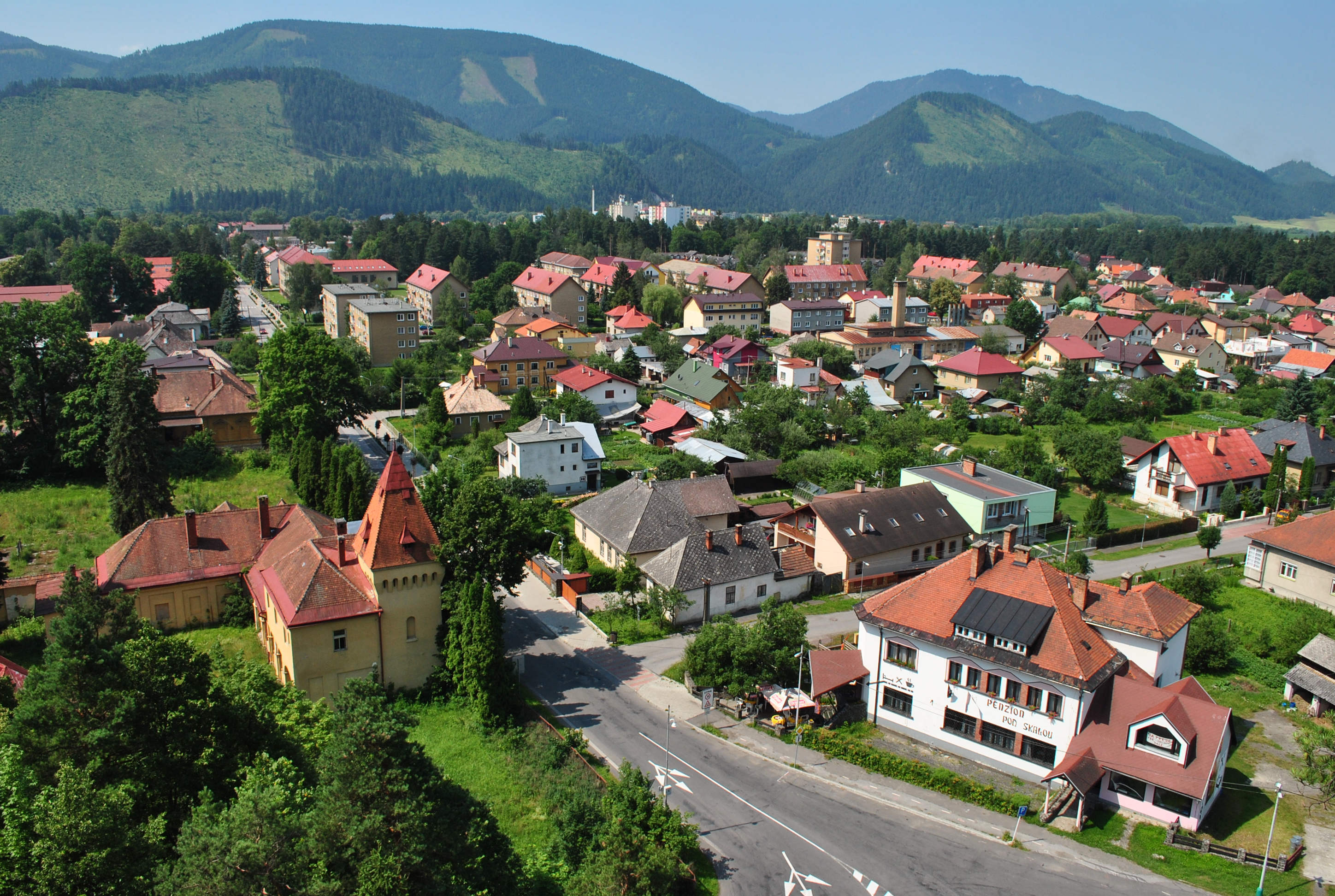 View of Liptovský Hrádok from Skalka